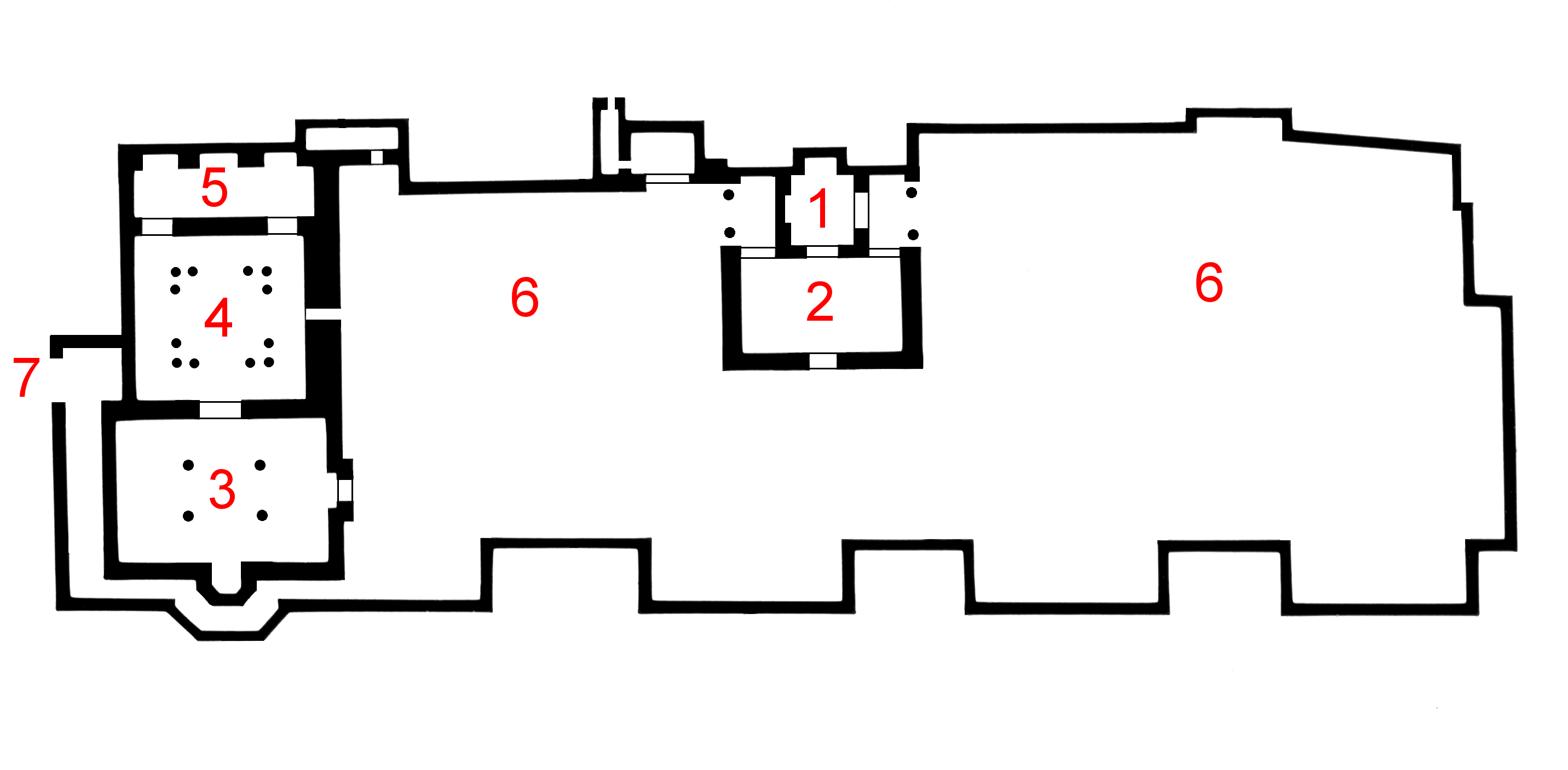 Floor plan of the Saadian Tombs, based off of George Marçais's floor plan ("L'Architecture Musulmane Occidental", 1955) and off the version at Aga Khan Documentation Center - MIT Libraries ( Made adjustements and simplifications. In this version: numbers added, without text, to allow for labeling and referencing in-text. Here is what they correspond to, based on the (translated) terminology and names used in a few books: 1: Chamber of Lalla Mas'uda (and Tomb of Muhammad al-Sheikh) 2: Grand Chamber 3: Chamber of the Mihrab (former prayer hall, contains tombs of Alaouite dynasty) 4: Chamber of the Twelve Columns (tomb of Ahmad al-Mansur and others) 5: Chamber of the Three Niches 6: Gardens and cemeteries 7: Visitor entrance today